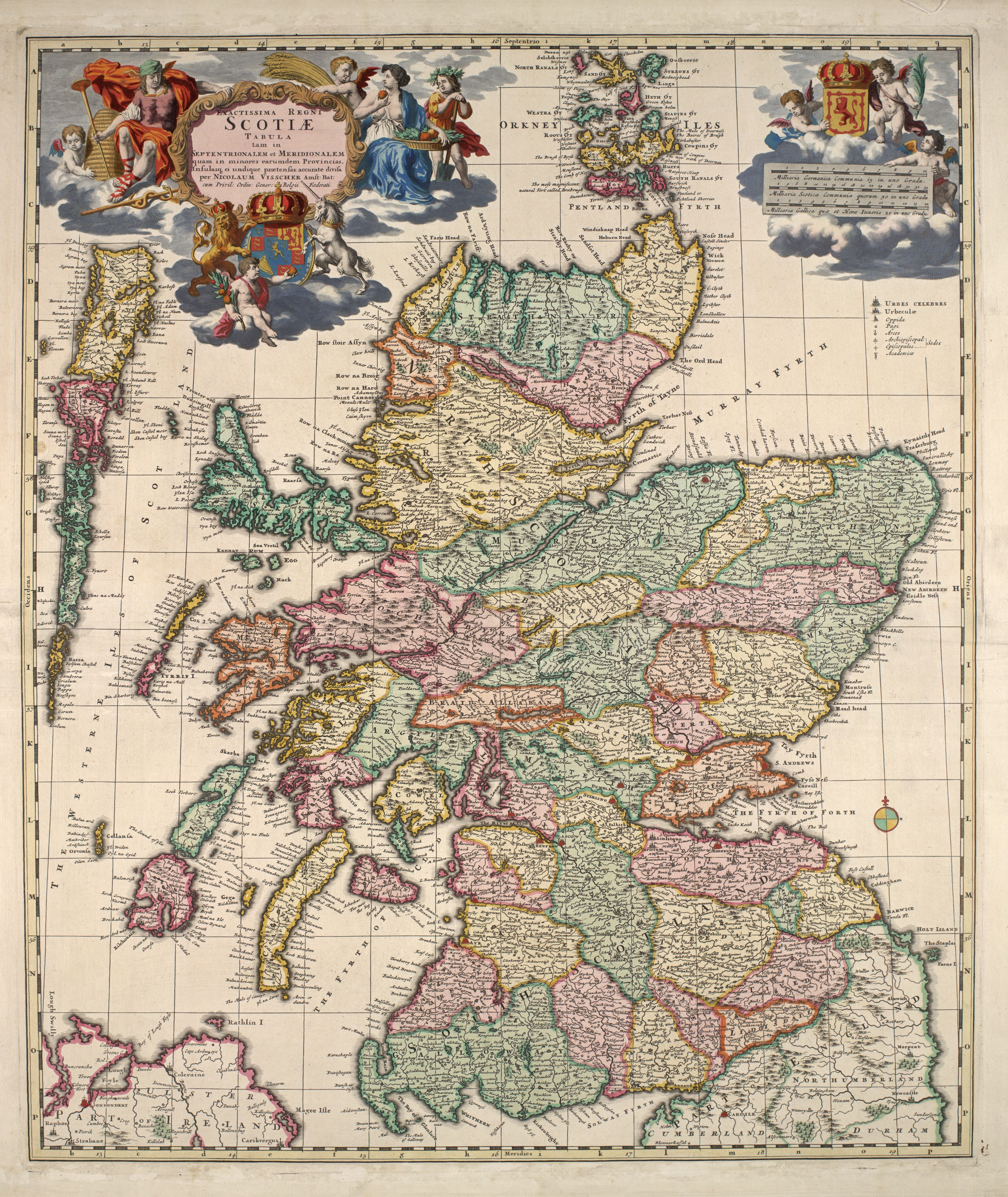 map of Scotland with Shire (County) subdivision